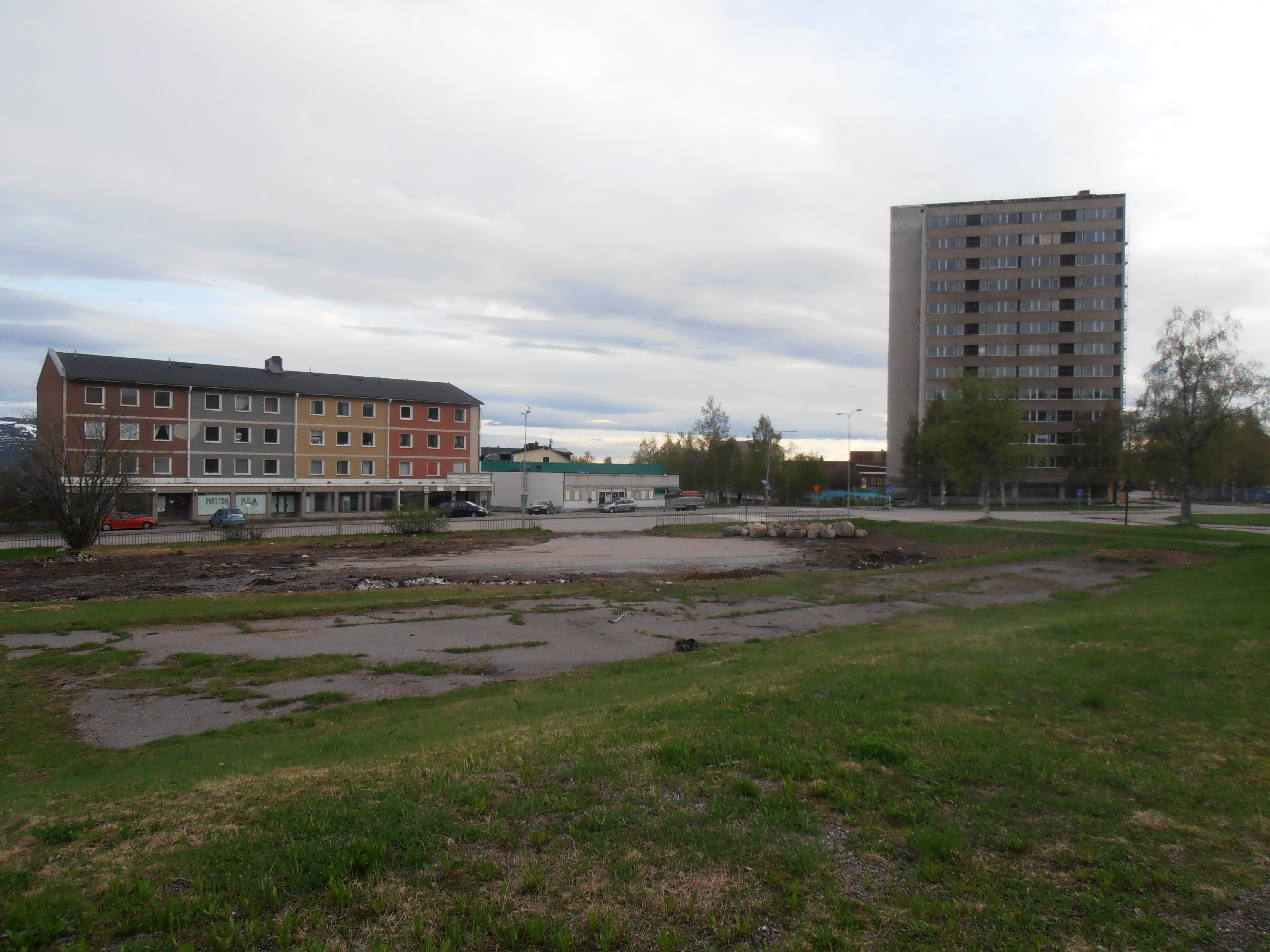 Malmberget downtown. In the middle is Konsum and to the right is the Fokus house.